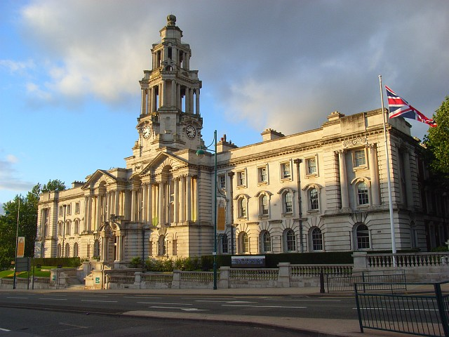 Stockport Town Hall, Stockport, Greater Manchester, England.